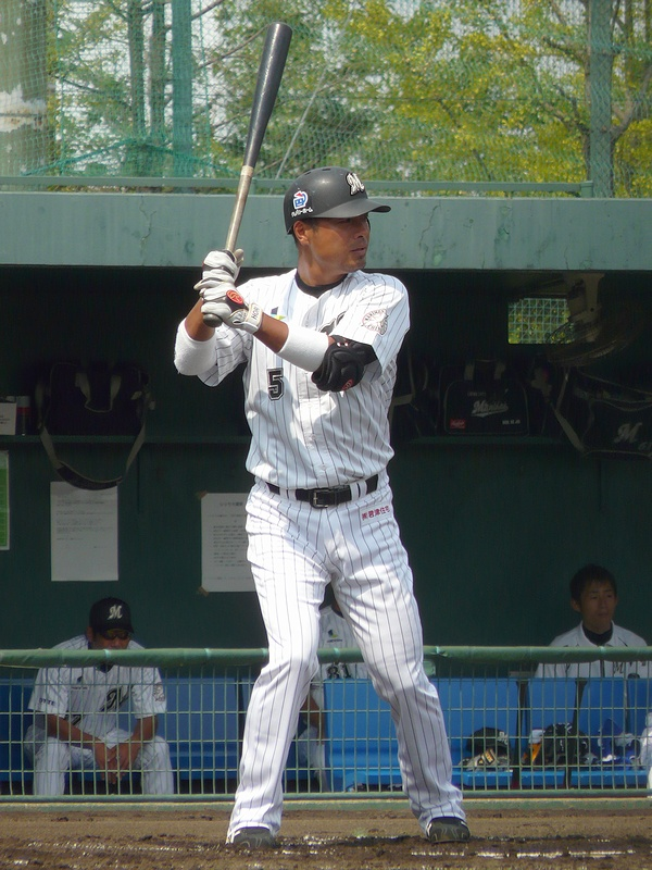 LM-Koichi-Hori20100827